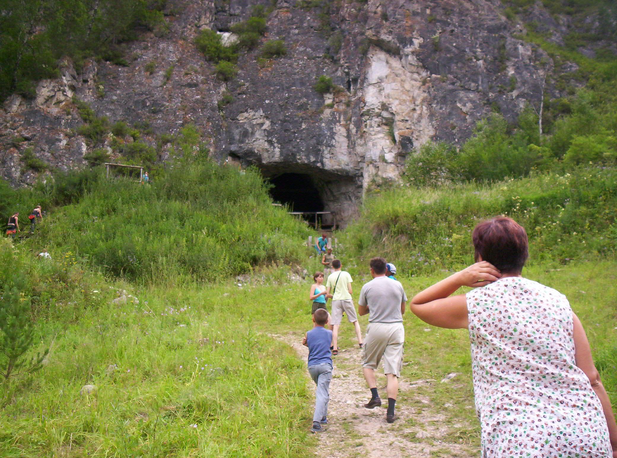 Tourists at the entrance to Denisova Cave, Russia